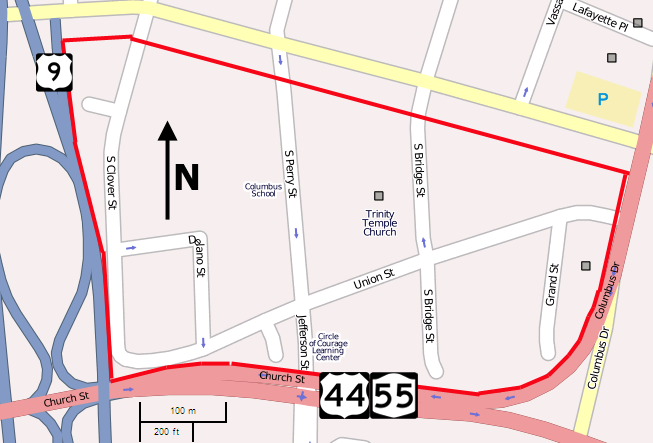 Map of Union Street Historic District, Poughkeepsie, NY, USA This map may be incomplete, and may contain errors. Don't rely solely on it for navigation.